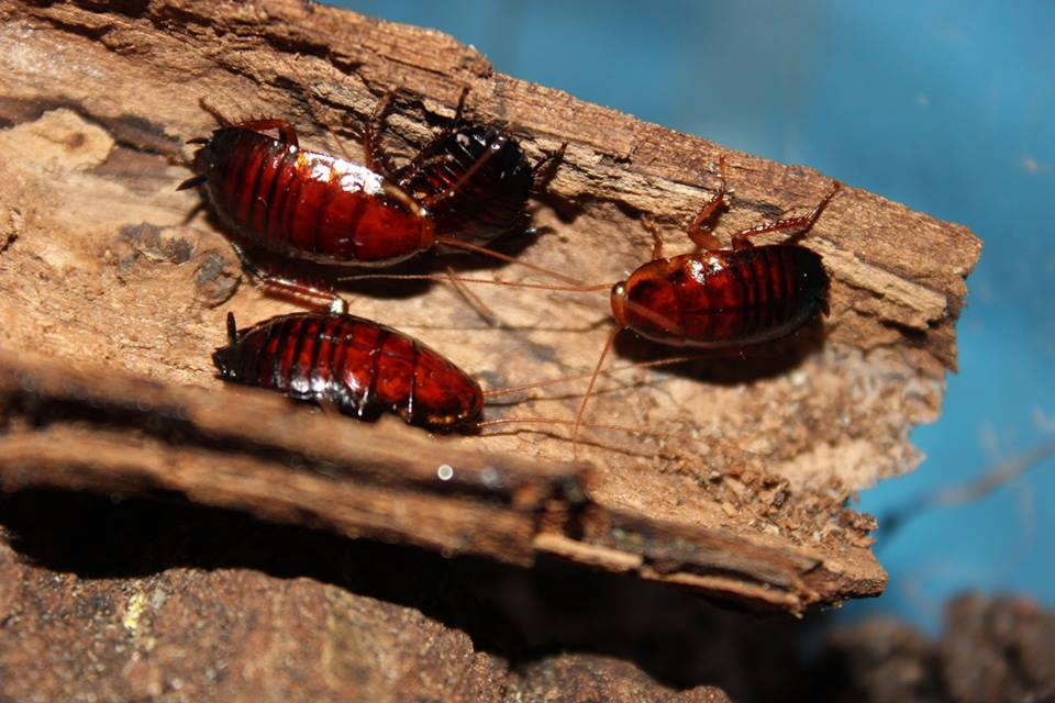 As title